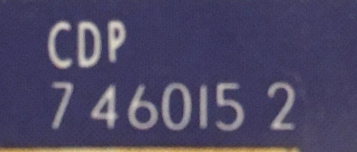 Took a picture of a catalog number (I don't know how this copyright thing works, if it's for the picture or the artwork?)